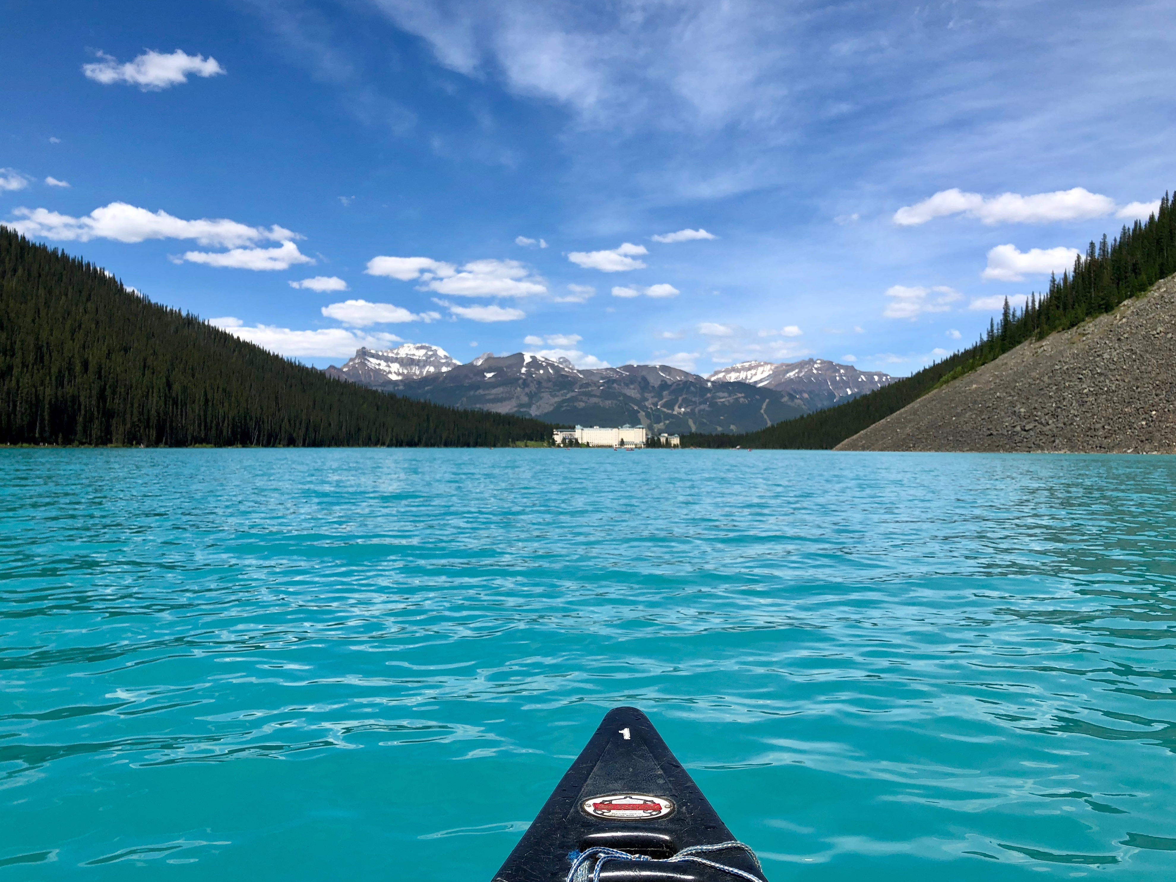 Lake Louise in Banff National Park